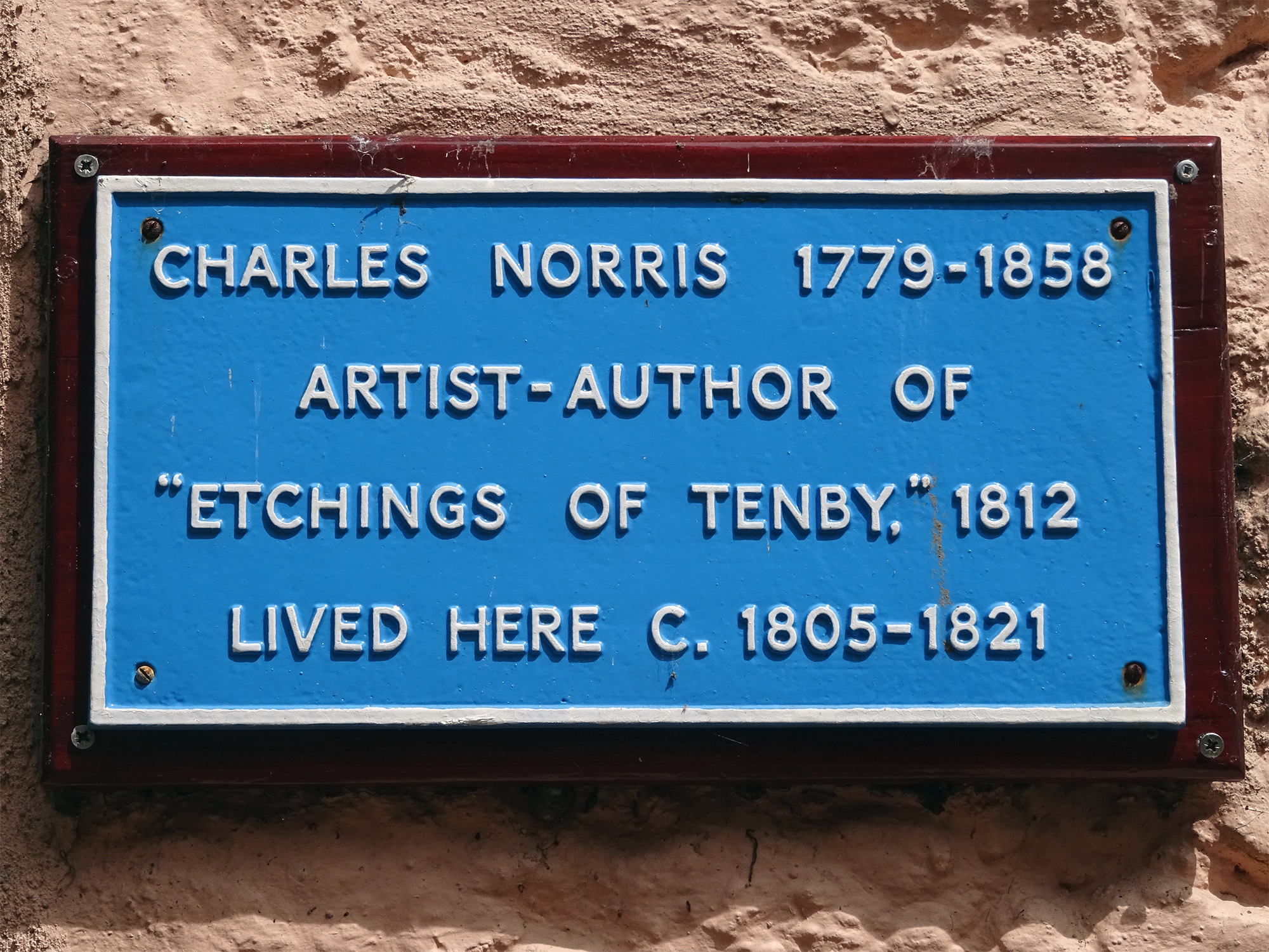 Plaque erected by Tenby Civic Society at Bridge Street, Tenby, Pembrokeshire SA70 7BL. Originally black, the plaque was refurbished in 2017 and is now blue.